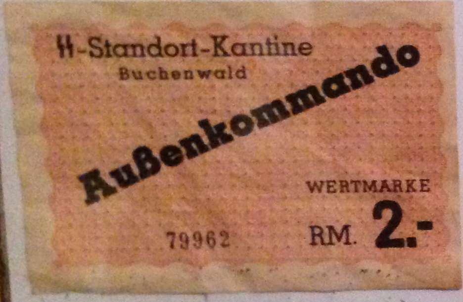 SS Canteen money from Buchenwald Concentration Camp